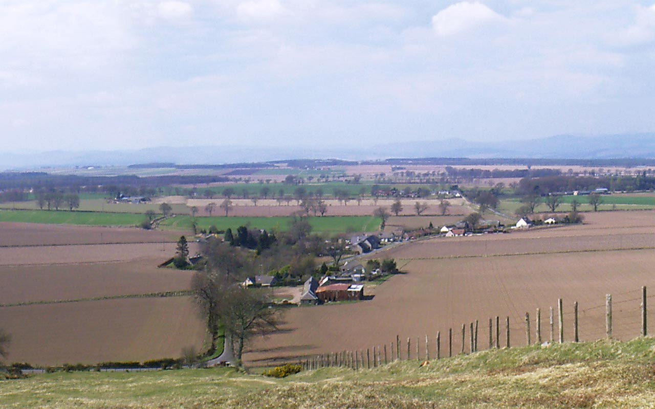 This photograph taken by Joe Dorward on 12APR06 shows Collace from the lower slopes of Dunsinane Hill